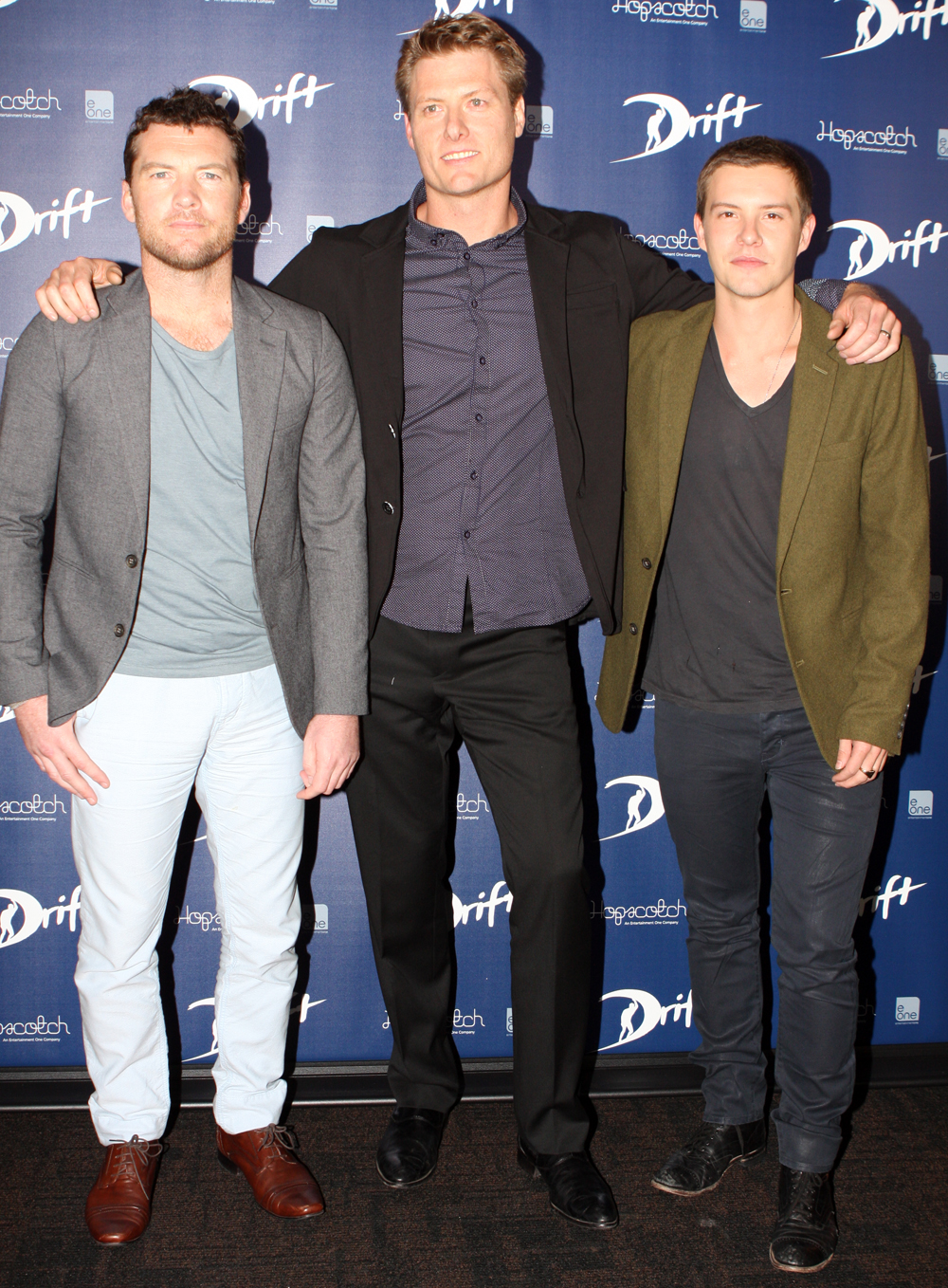 Sam Worthington & Myles Pollard & Xavier Samuel at the Drift Movie Media Event at Event Cinemas, Bondi Junction 2013.